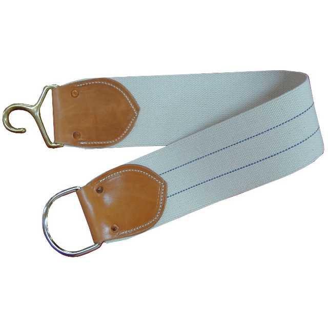 Photography of a lash cinch